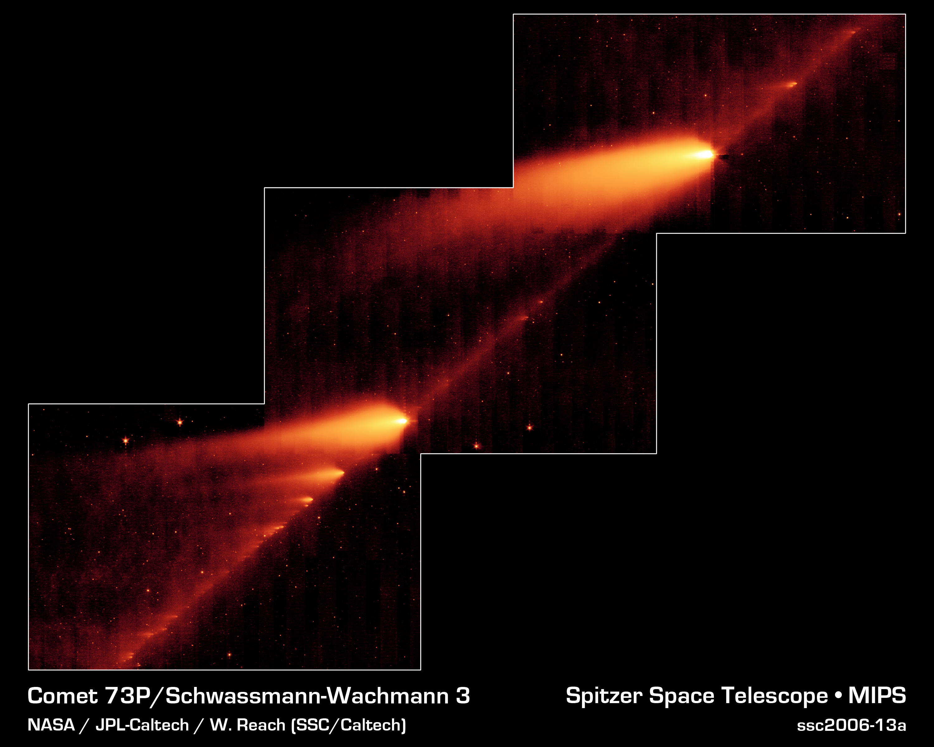 This infrared image from NASA's Spitzer Space Telescope shows the broken Comet 73P/Schwassman-Wachmann 3 skimming along a trail of debris left during its multiple trips around the sun. The flame-like objects are the comet's fragments and their tails, while the dusty comet trail is the line bridging the fragments. Comet 73P /Schwassman-Wachmann 3 began to splinter apart in 1995 during one of its voyages around the sweltering sun. Since then, the comet has continued to disintegrate into dozens of fragments, at least 36 of which can be seen here. Astronomers believe the icy comet cracked due to thermal stress from the sun. The Spitzer image provides the best look yet at the trail of debris left in the comet's wake after its 1995 breakup. The observatory's infrared eyes were able to see the dusty comet bits and pieces, which are warmed by sunlight and glow at infrared wavelengths. This comet debris ranges in size from pebbles to large boulders. When Earth passes near this rocky trail every year, the comet rubble burns up in our atmosphere, lighting up the sky in meteor showers. In 2022, Earth is expected to cross close to the comet's trail, producing a noticeable meteor shower. Astronomers are studying the Spitzer image for clues to the comet's composition and how it fell apart. Like NASA's Deep Impact experiment, in which a probe smashed into comet Tempel 1, the cracked Comet 73P/Schwassman-Wachmann 3 provides a perfect laboratory for studying the pristine interior of a comet. This image was taken from May 4 to May 6 by Spitzer's Multiband Imaging Photometer, using its 24-micron wavelength channel.